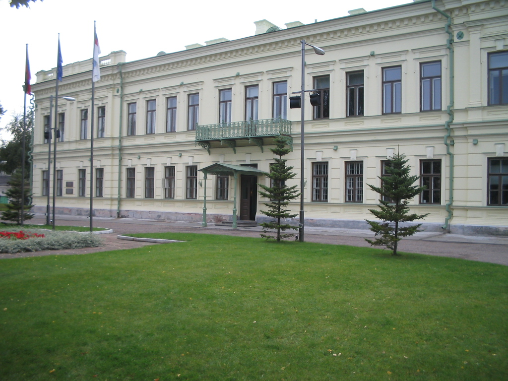 Headquarters of Lithuanian Air Force, Kaunas.